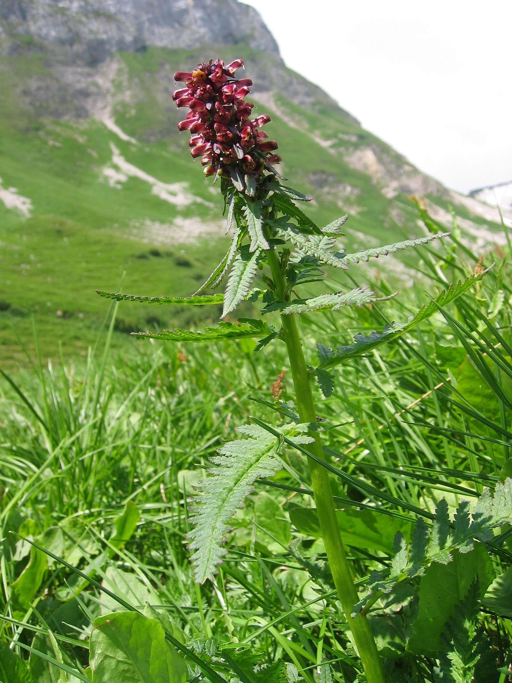 Pedicularis recutita, Near Wildgössl, ~1.700 m, Styria, Austria